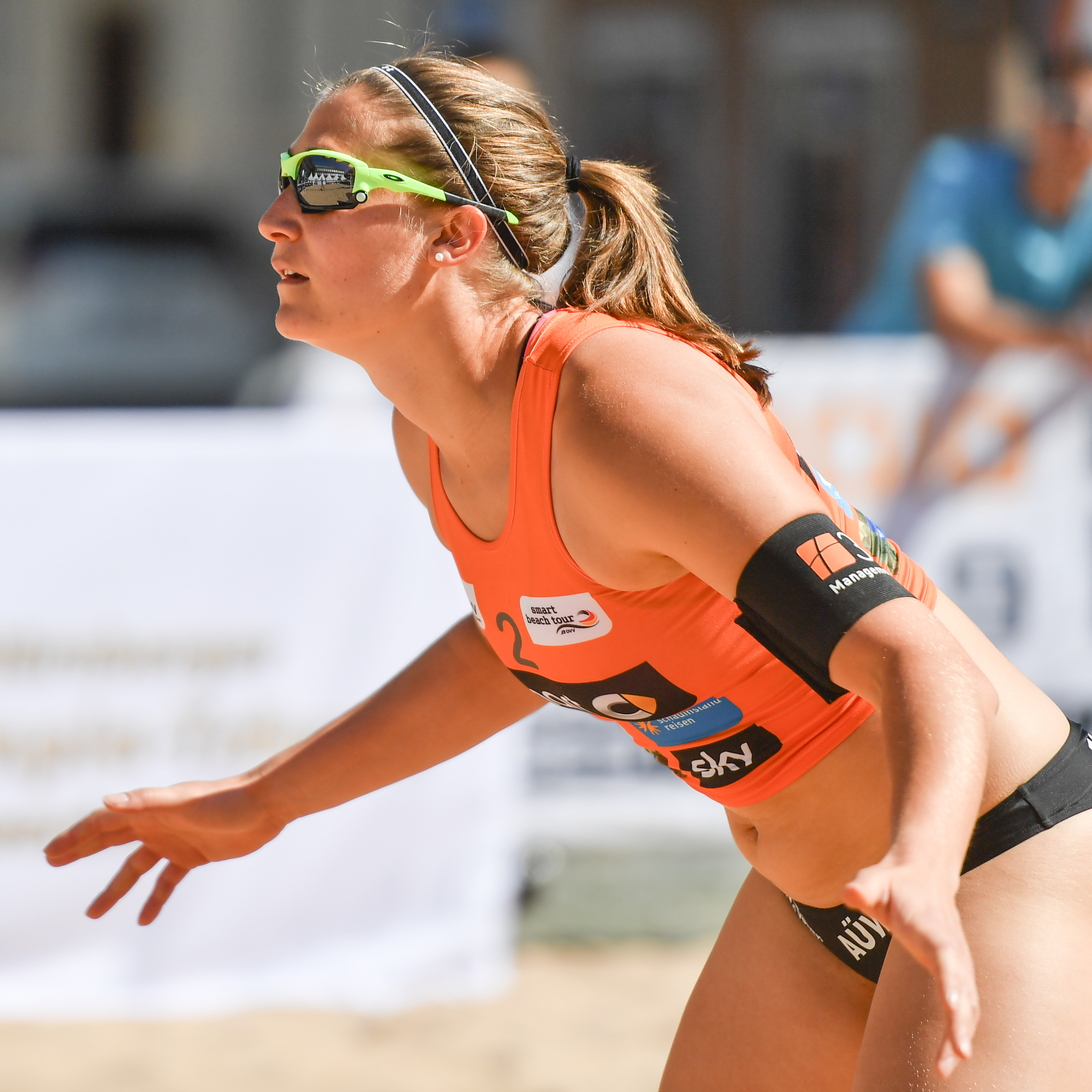 27/5/2017, Nuremberg, Germany, Sports, beach volleyball, smart beach cup Nuernberg.